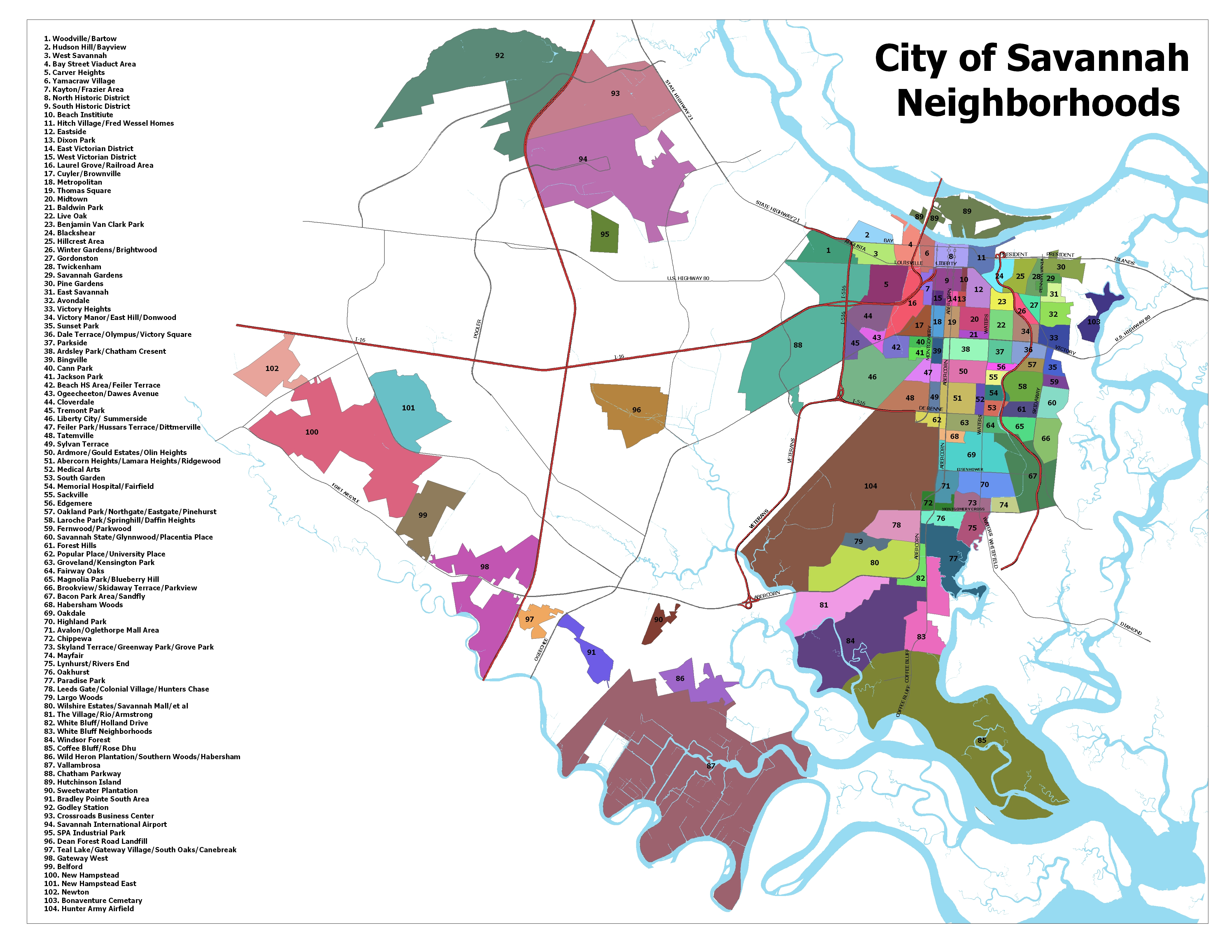 A map showing the designated neighborhoods in the City of Savannah, Georgia.